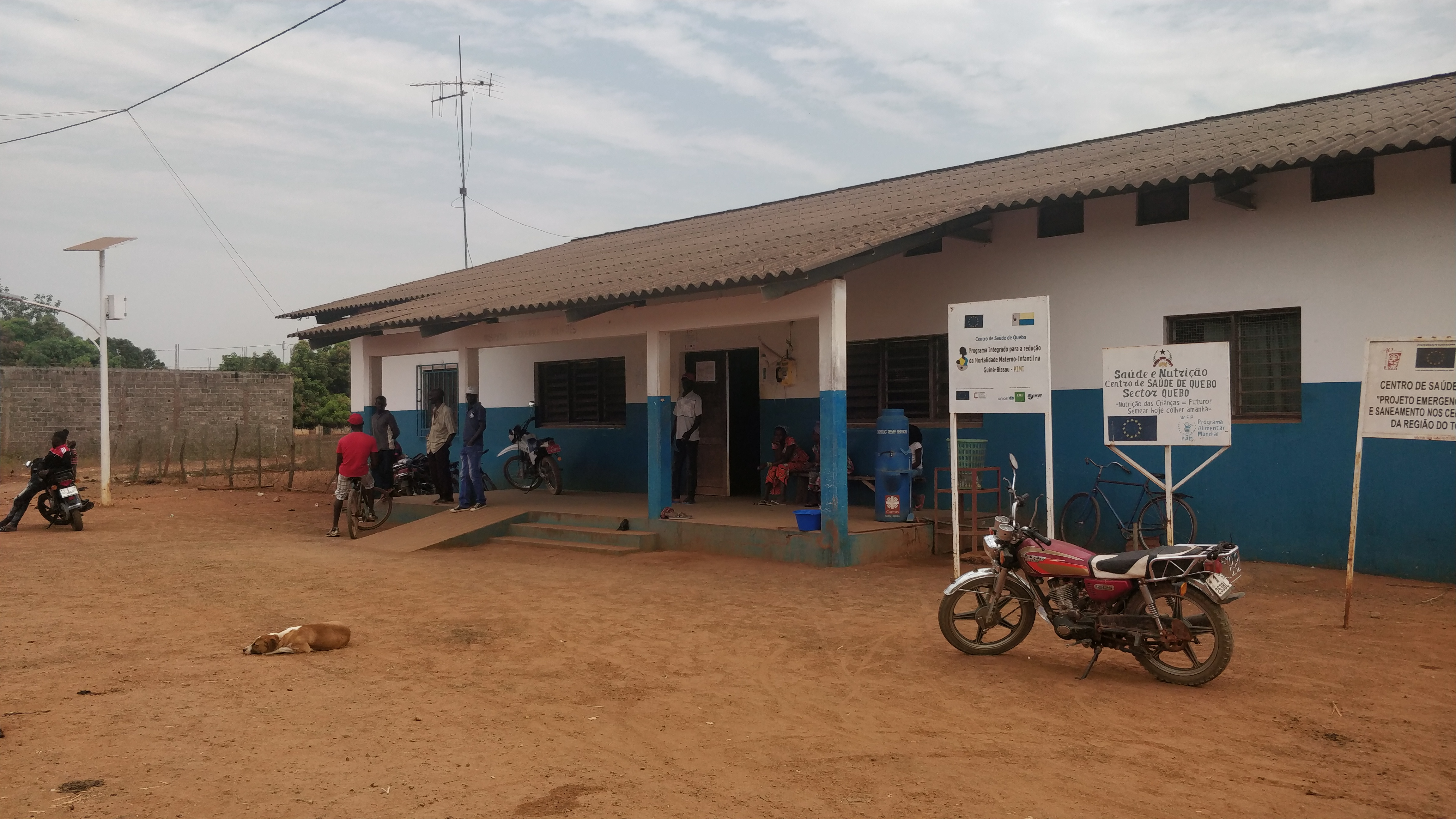 Health station (Centro de Saúde) in Quebo, Guinea-Bissau